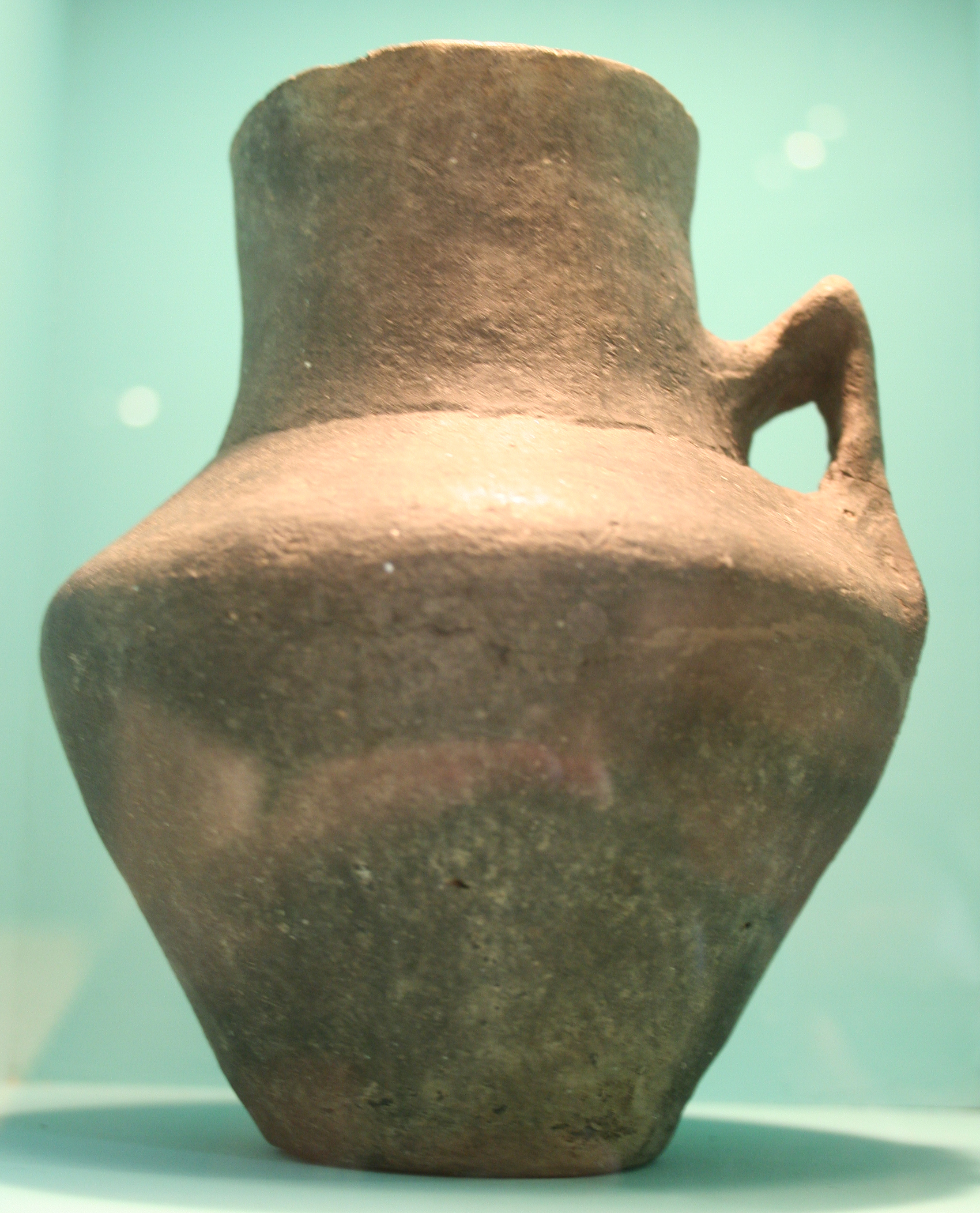 Museum für Vor- und Frühgeschichte (Museum of prehistory and early history), Berlin